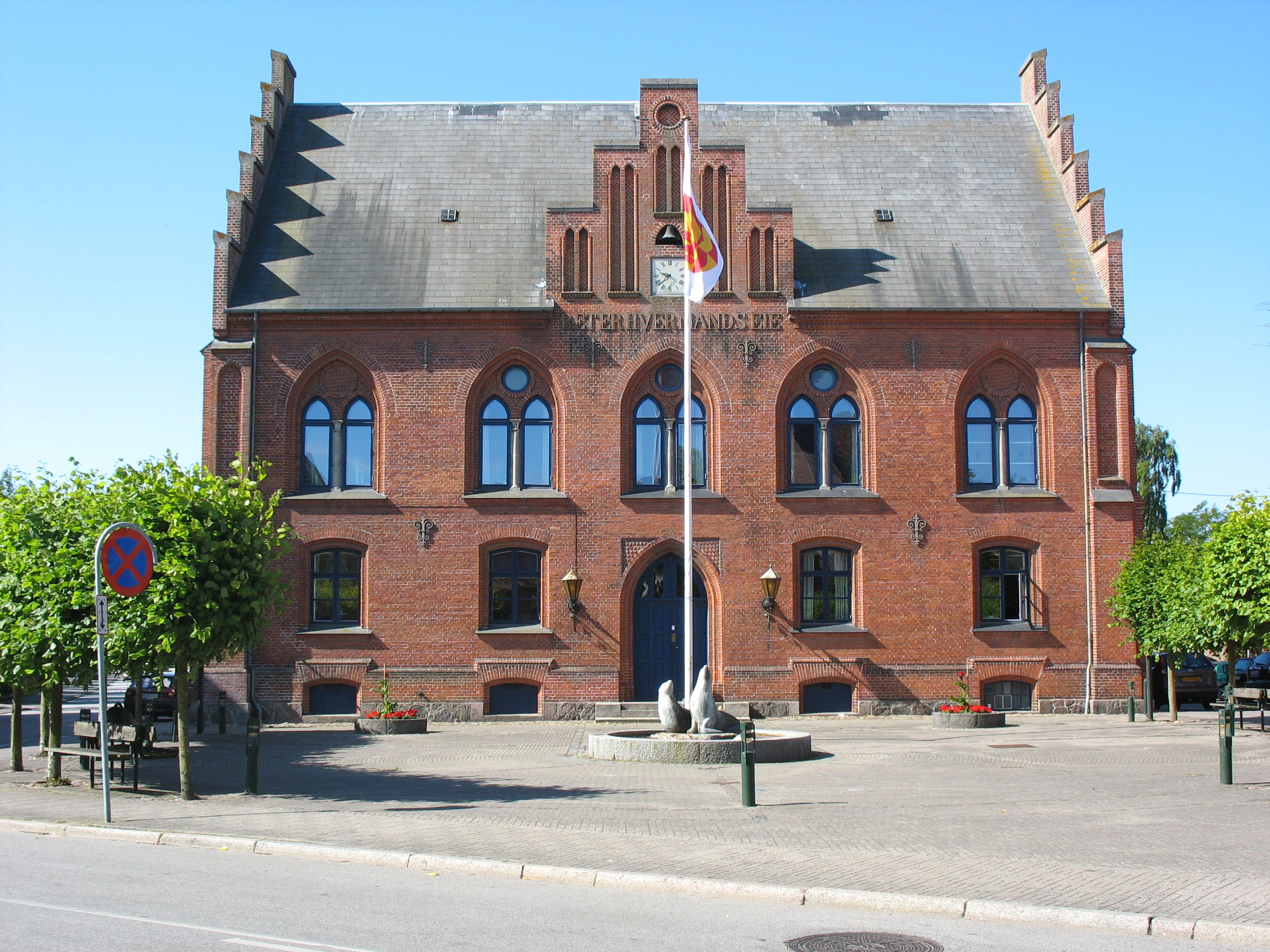 The old town hall of "Sakskøbing". The town is located in Lolland in east Denmark.